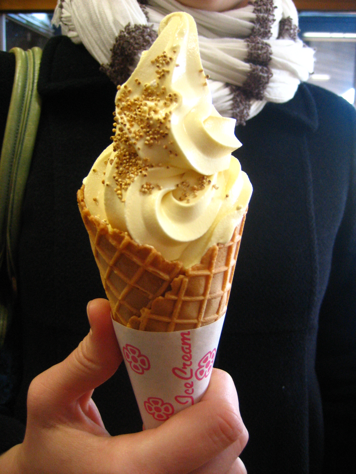 A picture of Awa (アワ) ice cream made from Foxtail Millet in Japan. Picture was taken with a Canon Power Shot SD450 Digital Elph camera and modified using a Paint Shop program on a laptop computer.